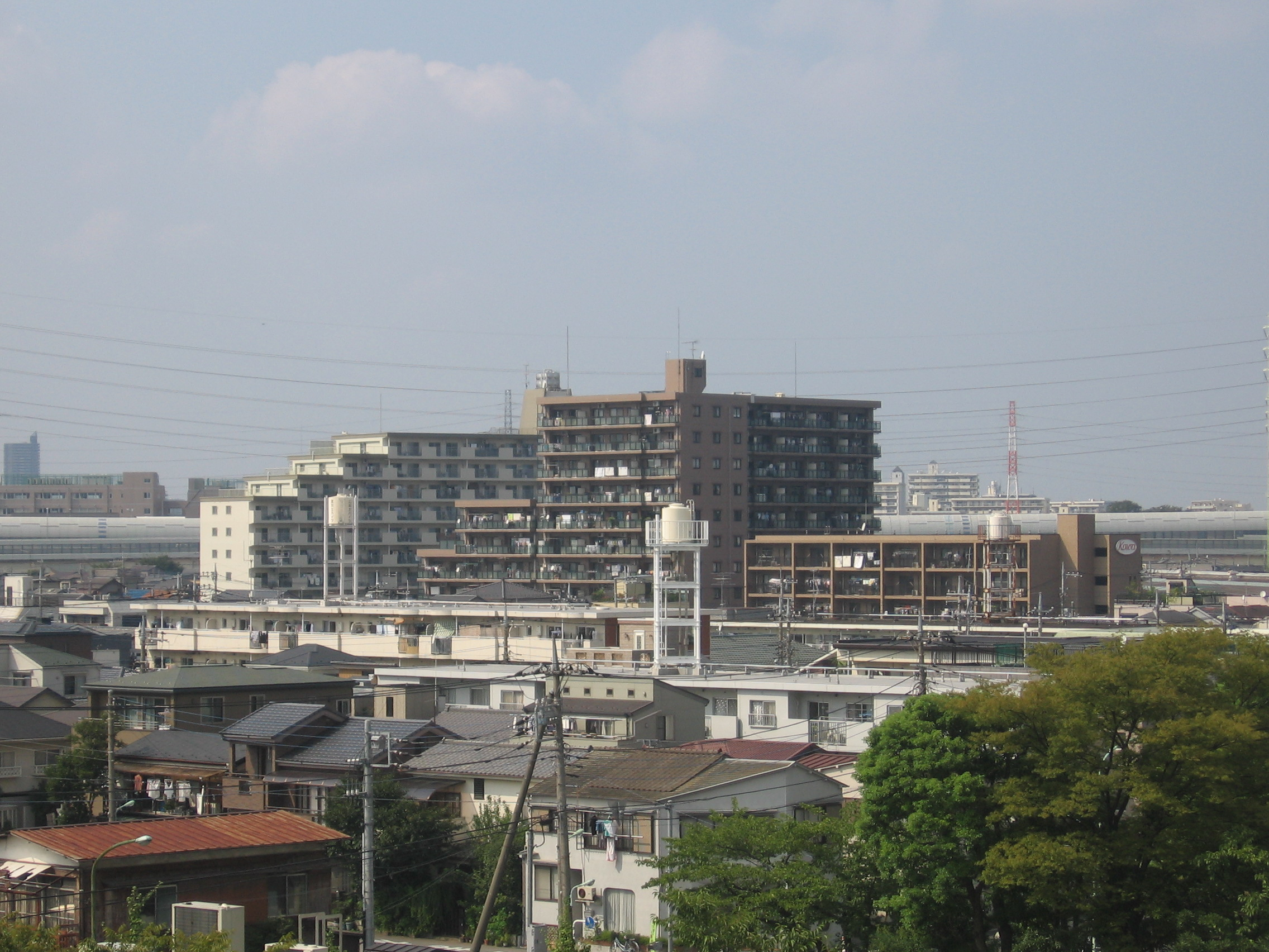 Condominiums of Shibafuji(from the left,Charme Warabi,My Castle Minamiurawa,Kōwa Kawaguchi-Sō)